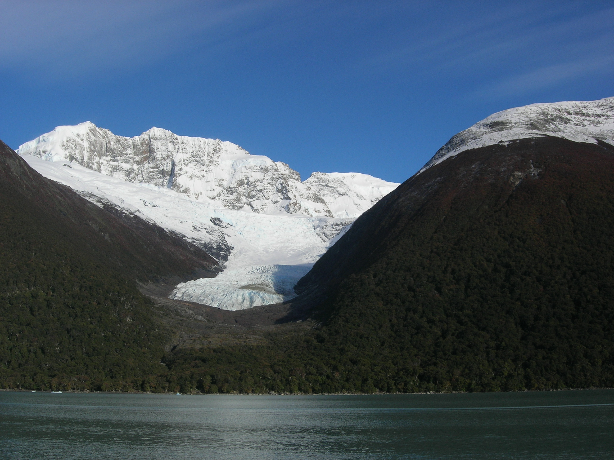 Description =Glacier Seco Argentine Source =Photo taken by Remi Jouan Date =Avril 2006 Author =Remi Jouan